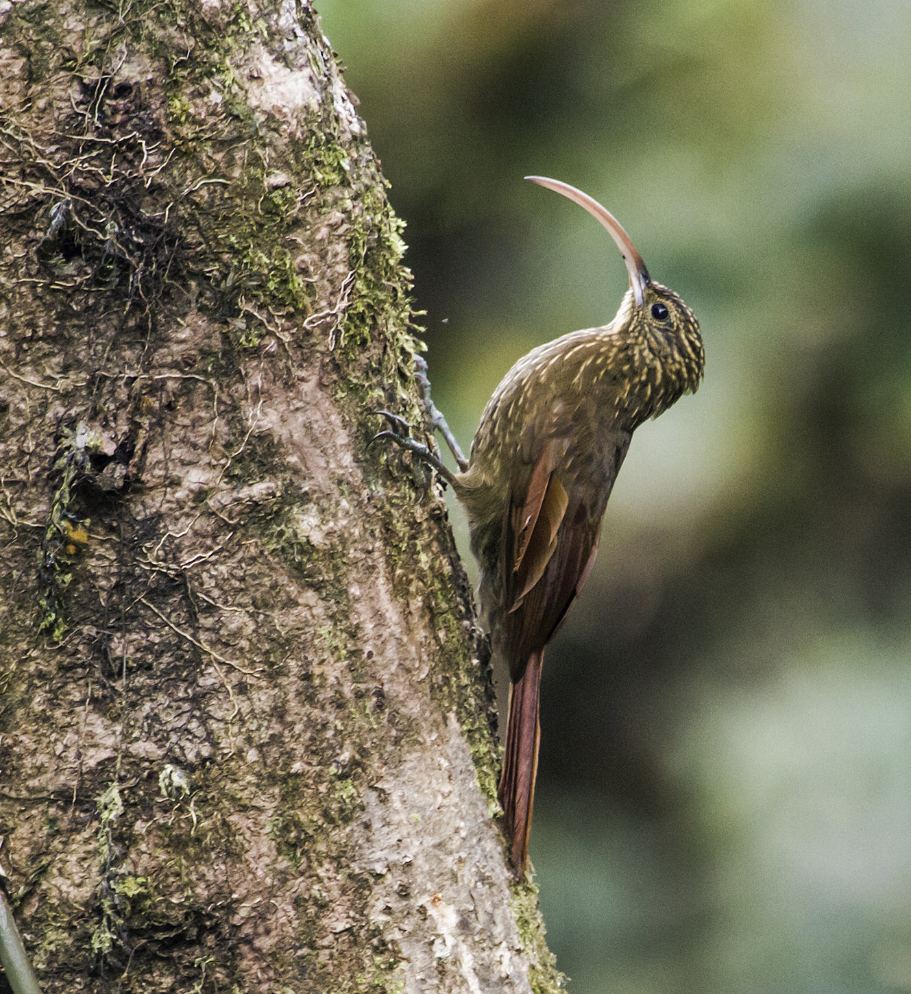 Brown-billed Scythebill from Chinapintza, Zamora-Chinchipe, Ecuador.